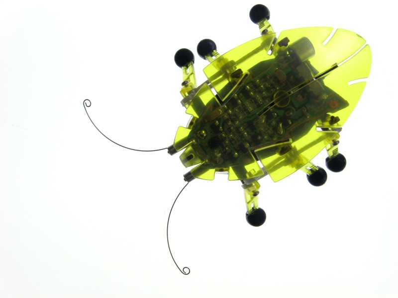 Insect type robot. Size: H 33 × W 60 × D 60 mm, 16ｇ. Battery: LR43×2.